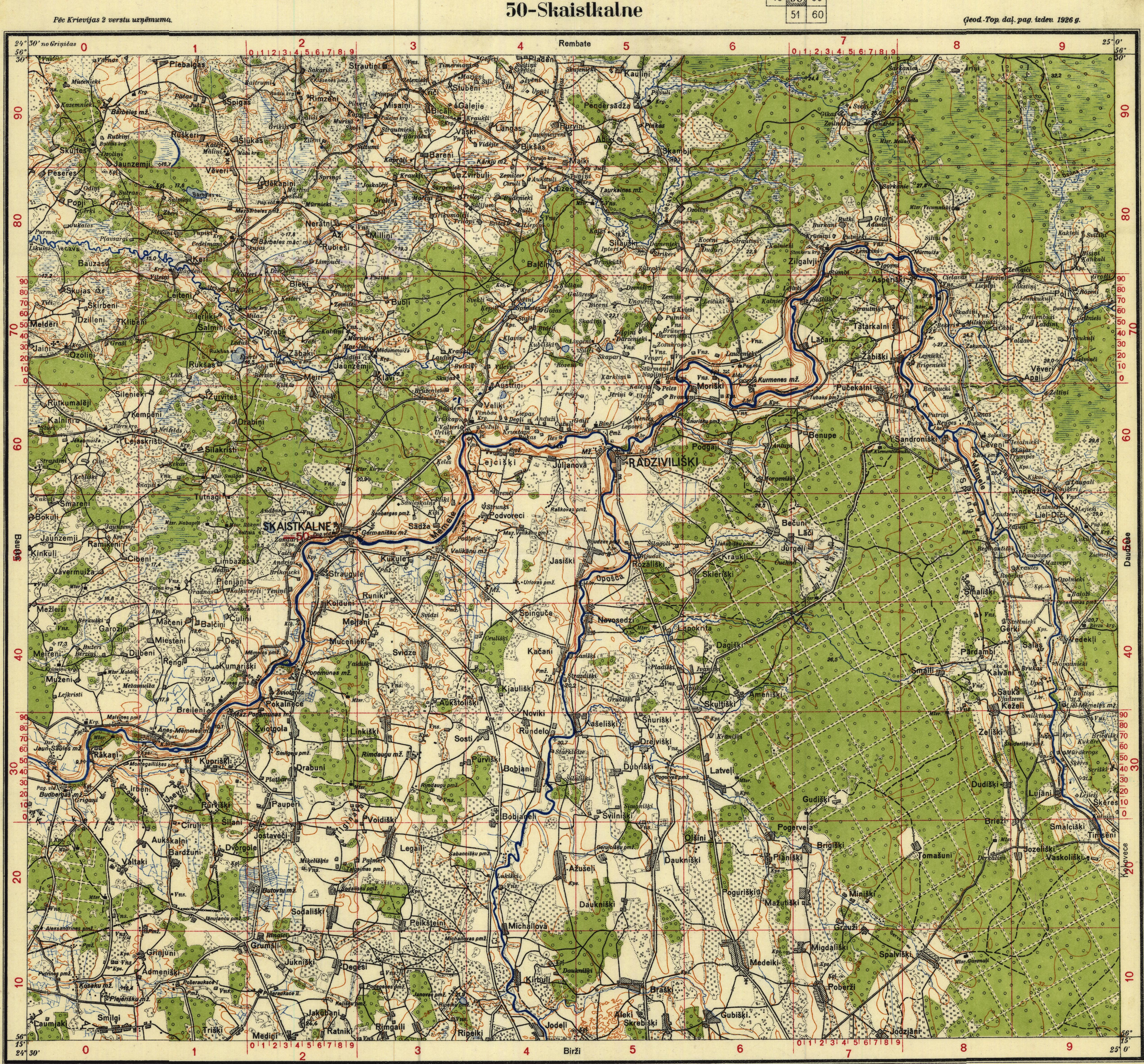 map